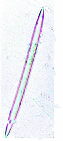 Synedra